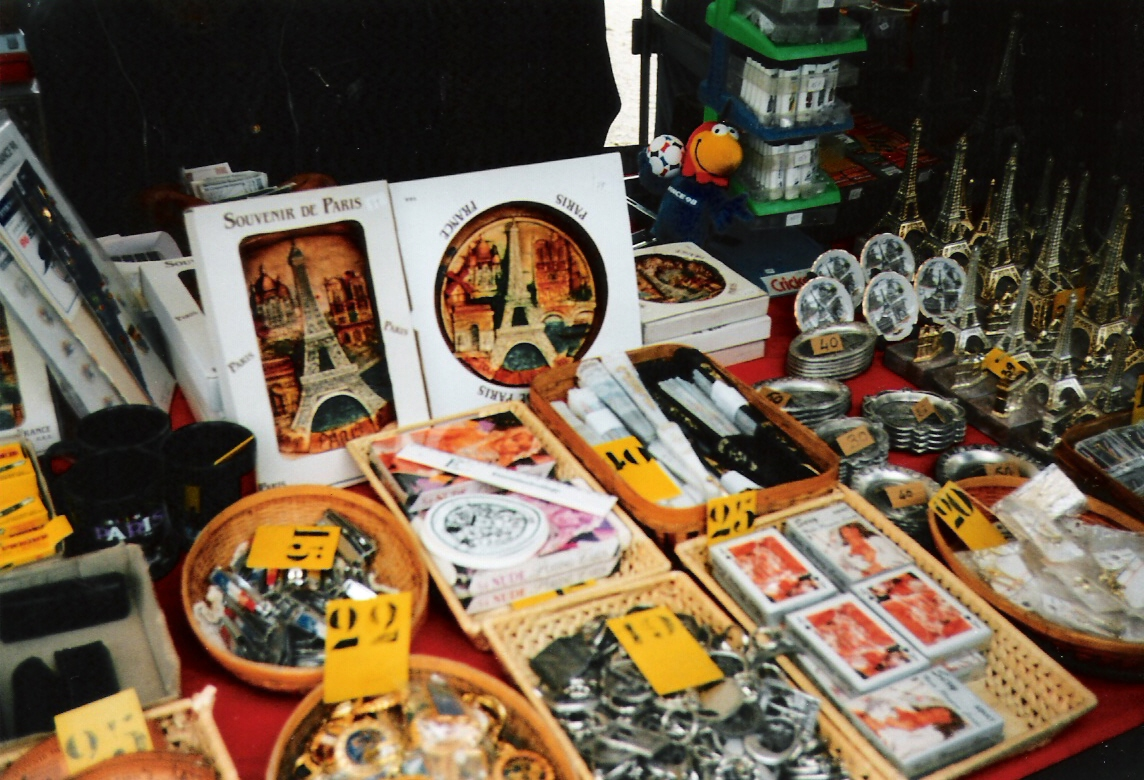 Souvenirs near the Eiffel Tower, Paris